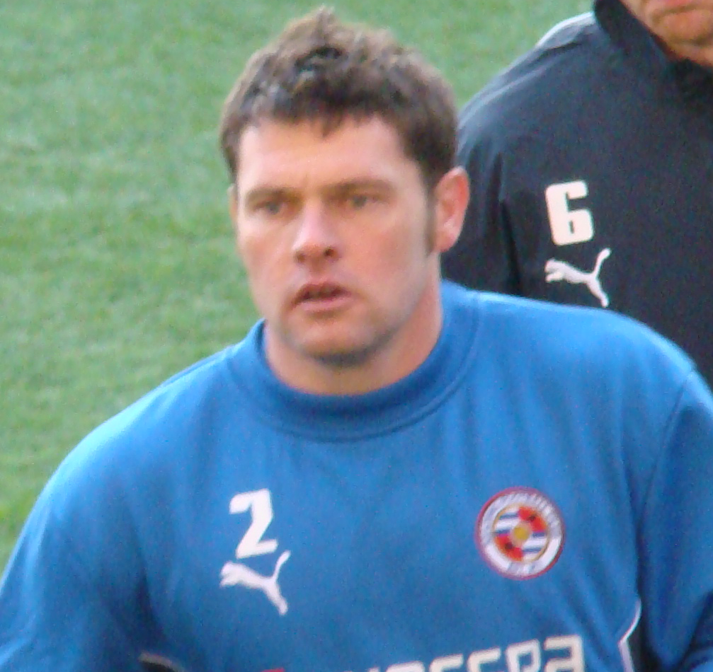 Graeme Murty warming up against Aston Villa